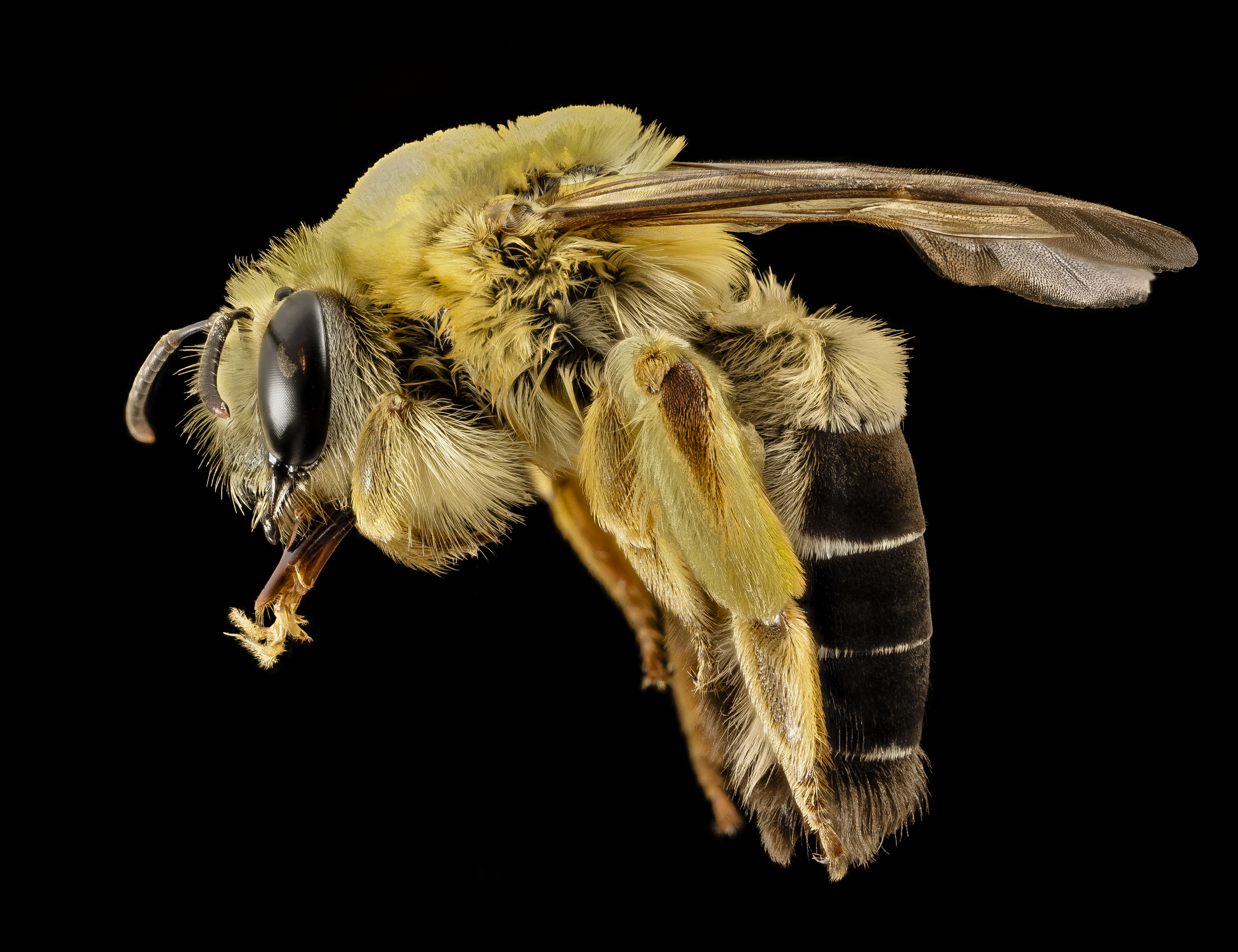 Caupolicana electa is a bee of the early morning. Matrinal. Restricted to the southeastern United States deep sand spots where it feeds only in the early morning hours. Very uncommonly recorded now but this one was collected by Sabrie Breland in residual burned longleaf pine lands of Southeastern Georgia.